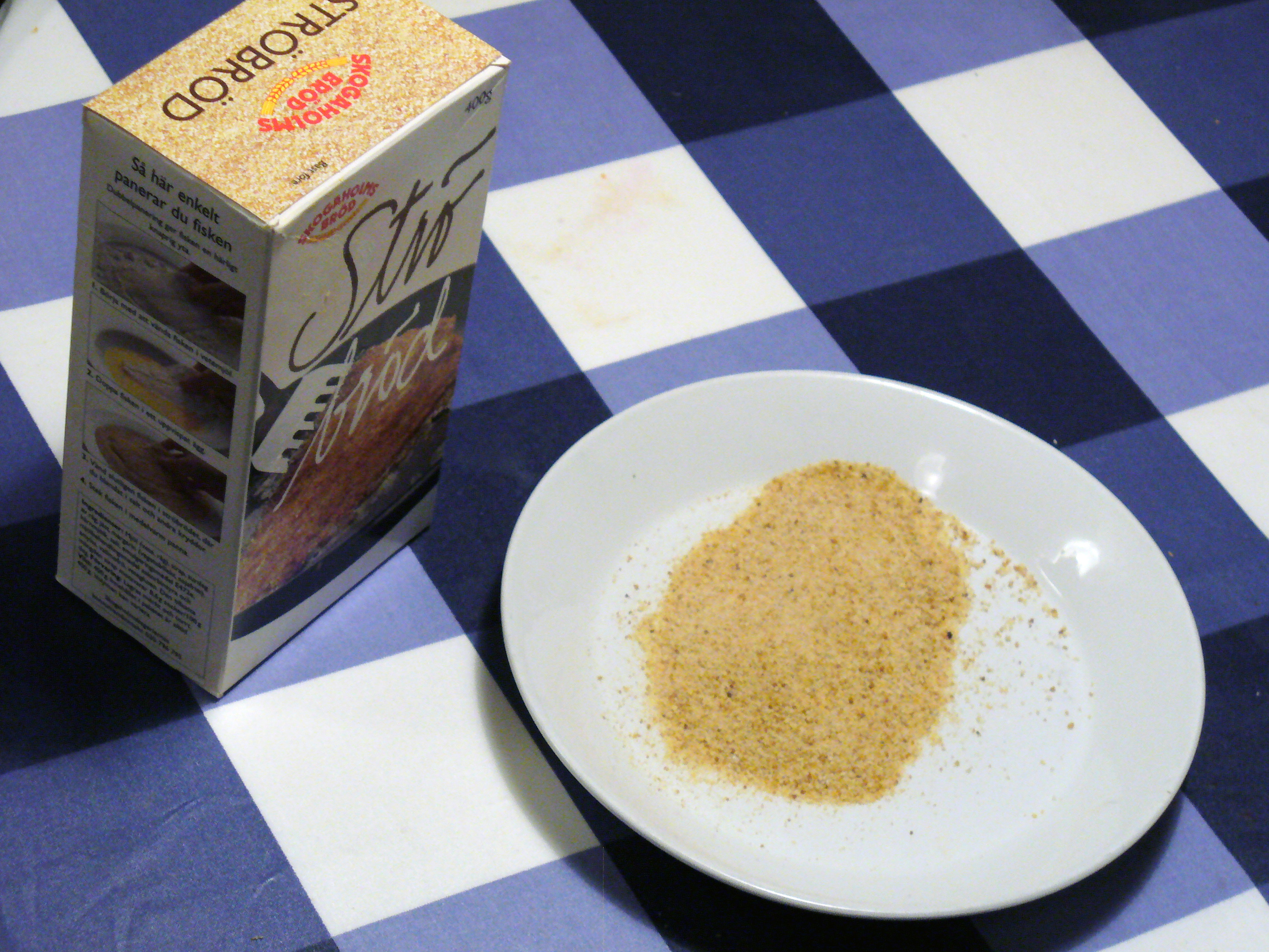 Breadcrumb from Swedish breadmaker Skogaholm.